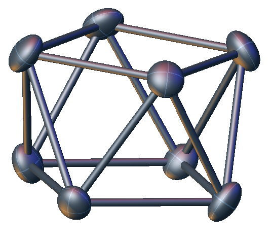 Structure of [Bi8](GaCl4)2 according to doi 10.1002/ejic.200400466